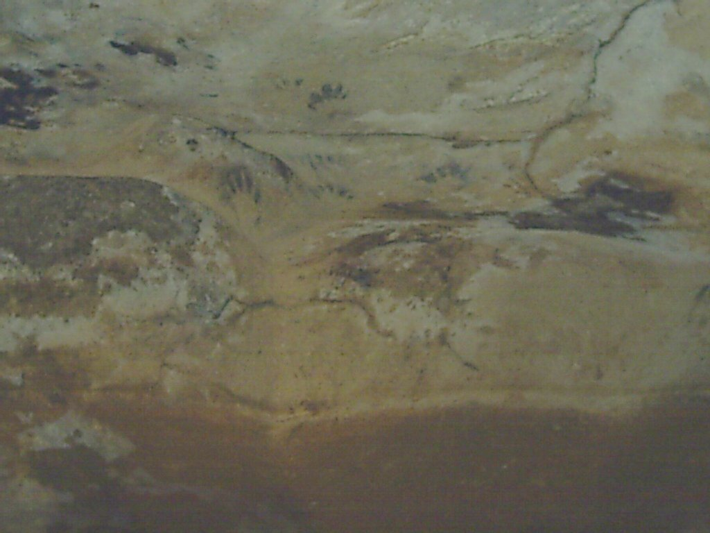 Cave paintings at Lol-Tun cave frotatis solo pte It is assumed that the negative-like hand drawings were obtained by blowing pigments over the hand placed on the rock and then removing it. Taken by Pedro Sanchez at Yucatan on Dec 31, 2005.